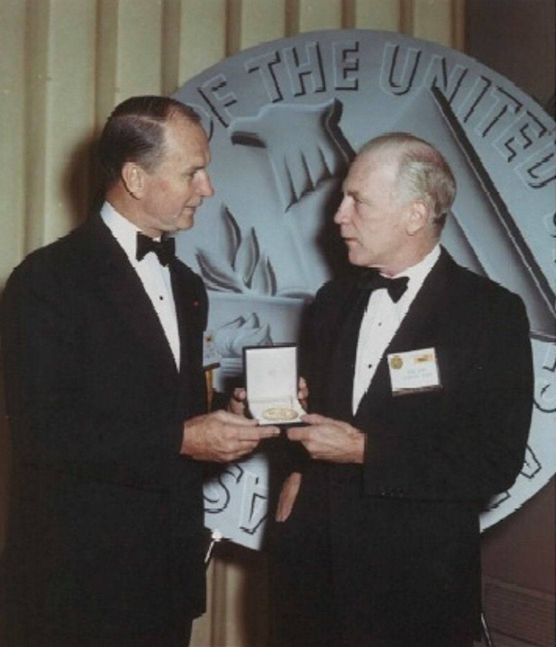 General Gavin presents Gordon Gray with the Marshall Award.